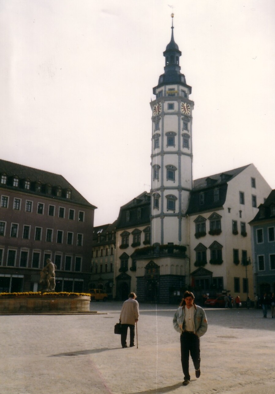 city hall of Gera, Germany